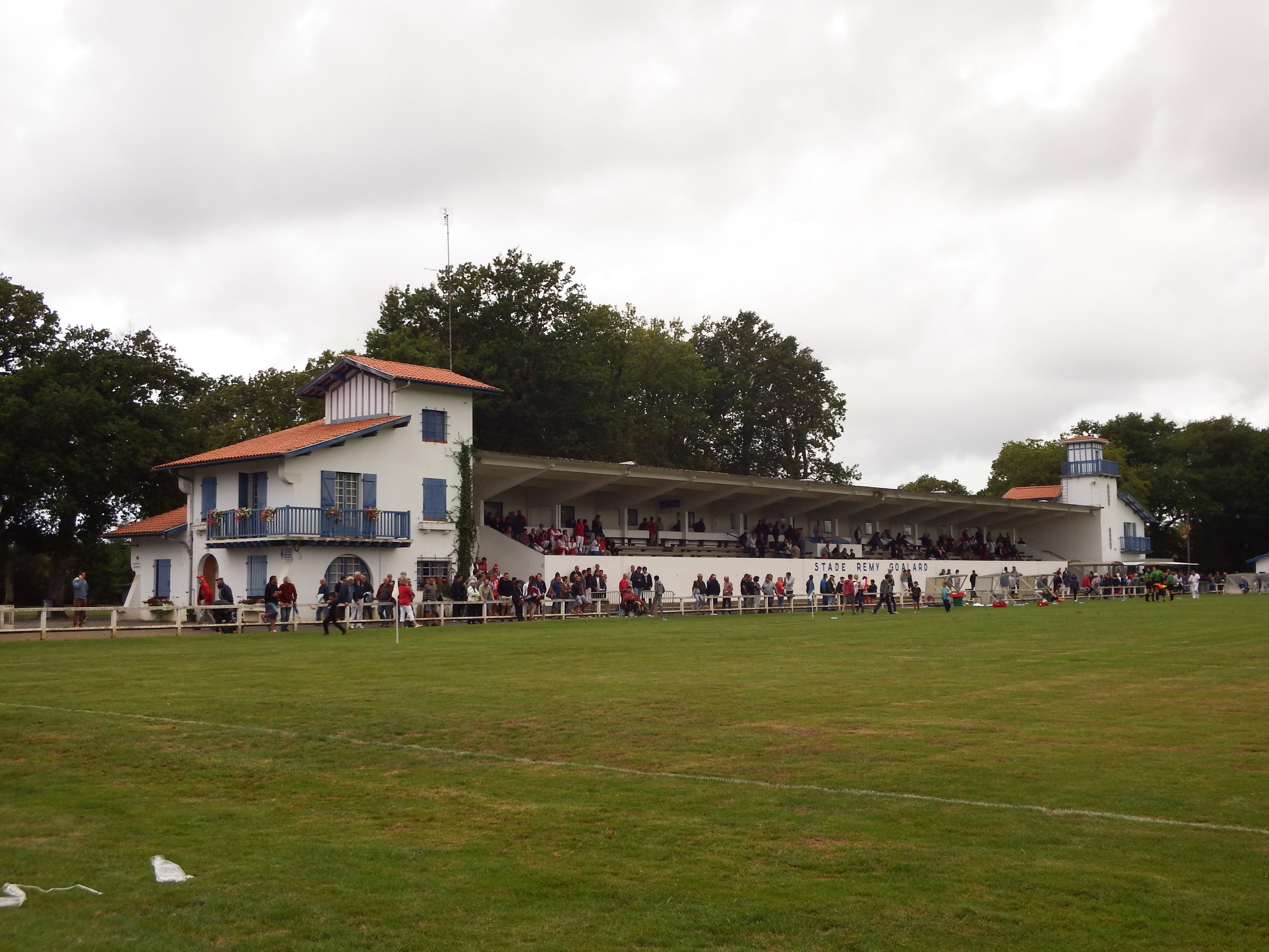 rugby union friendly match — 14 August 2015, stade Rémy-Goalard. Match between: US Dax — Stade Rodez Aveyron